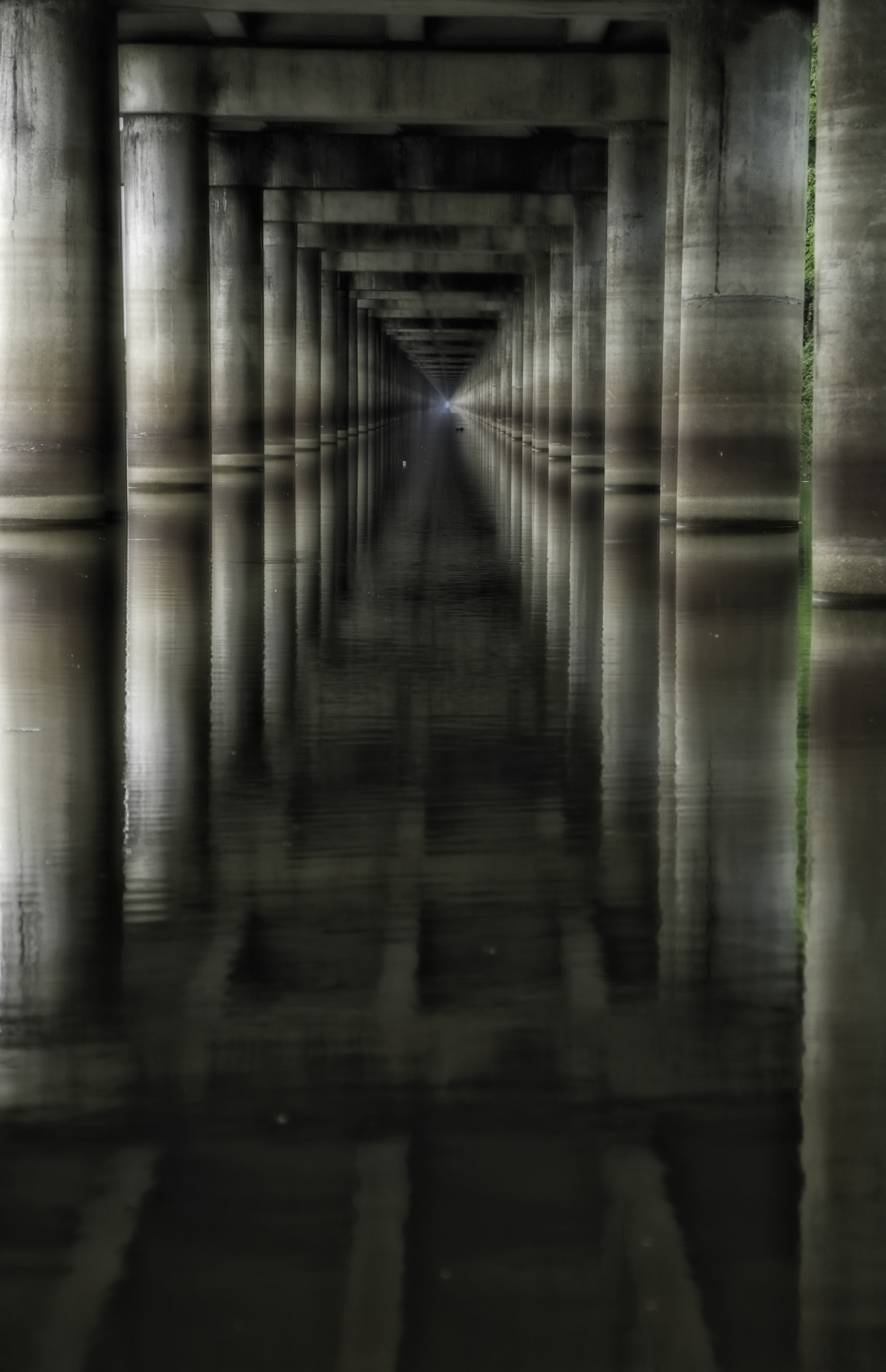 Underneath the Atchafalaya Basin Bridge on I-10 at the Whiskey Bay exit.